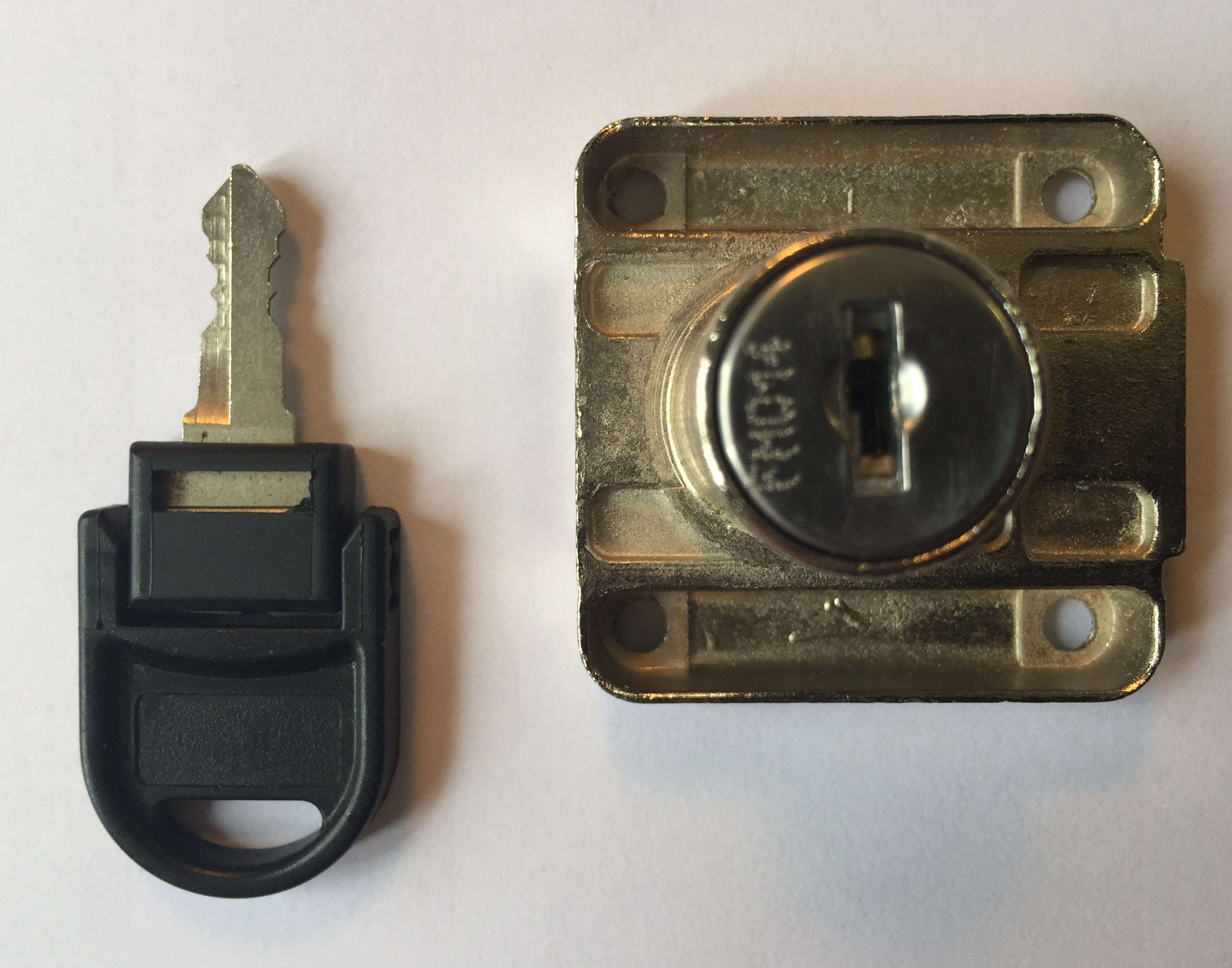 A common type of wafer tumbler lock usually found on desks, filing cabinets and office furniture. NOT to be confused with a disc tumbler lock.